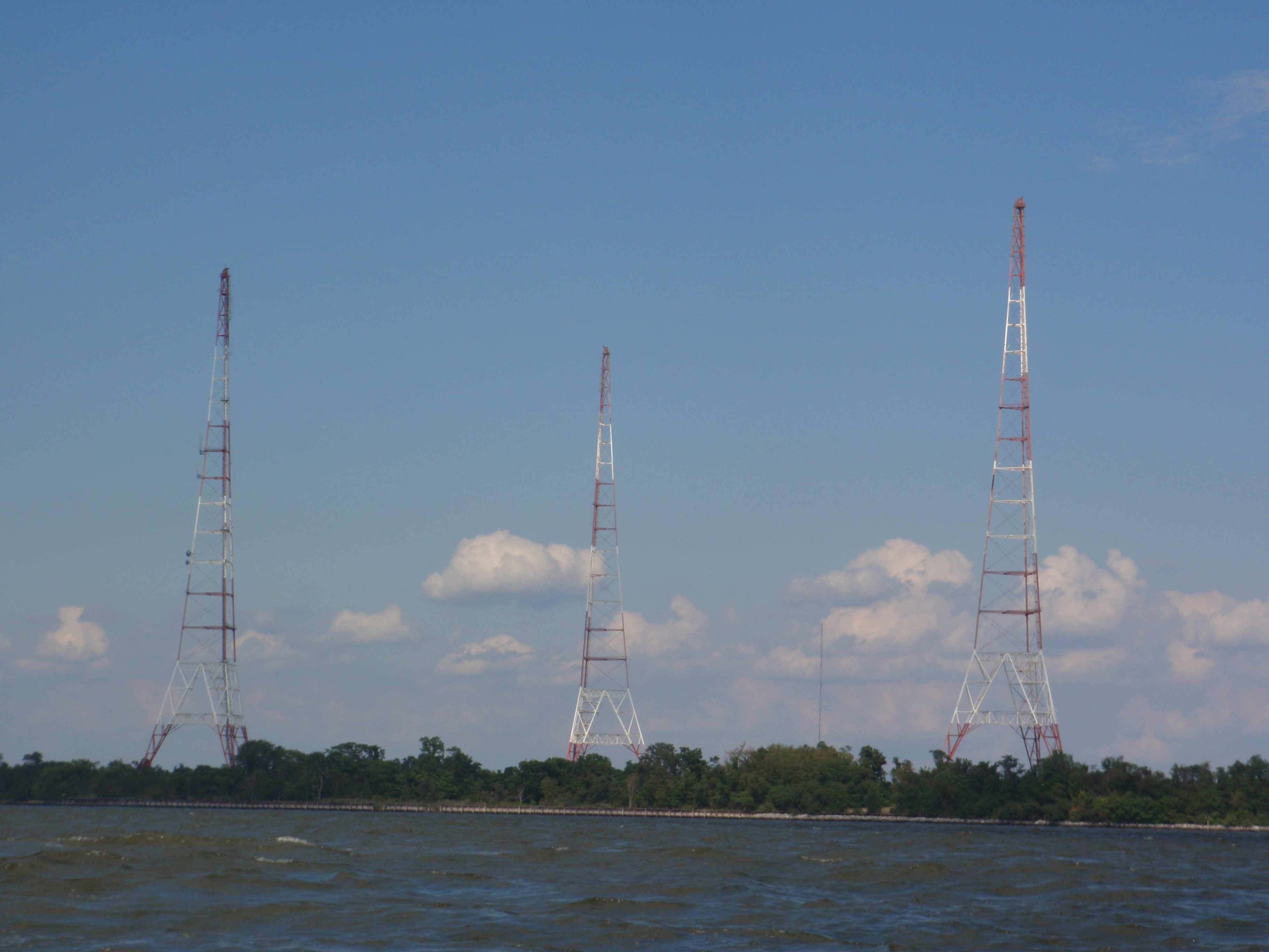 This is an image of the NSS Annapolis as seen from the water.